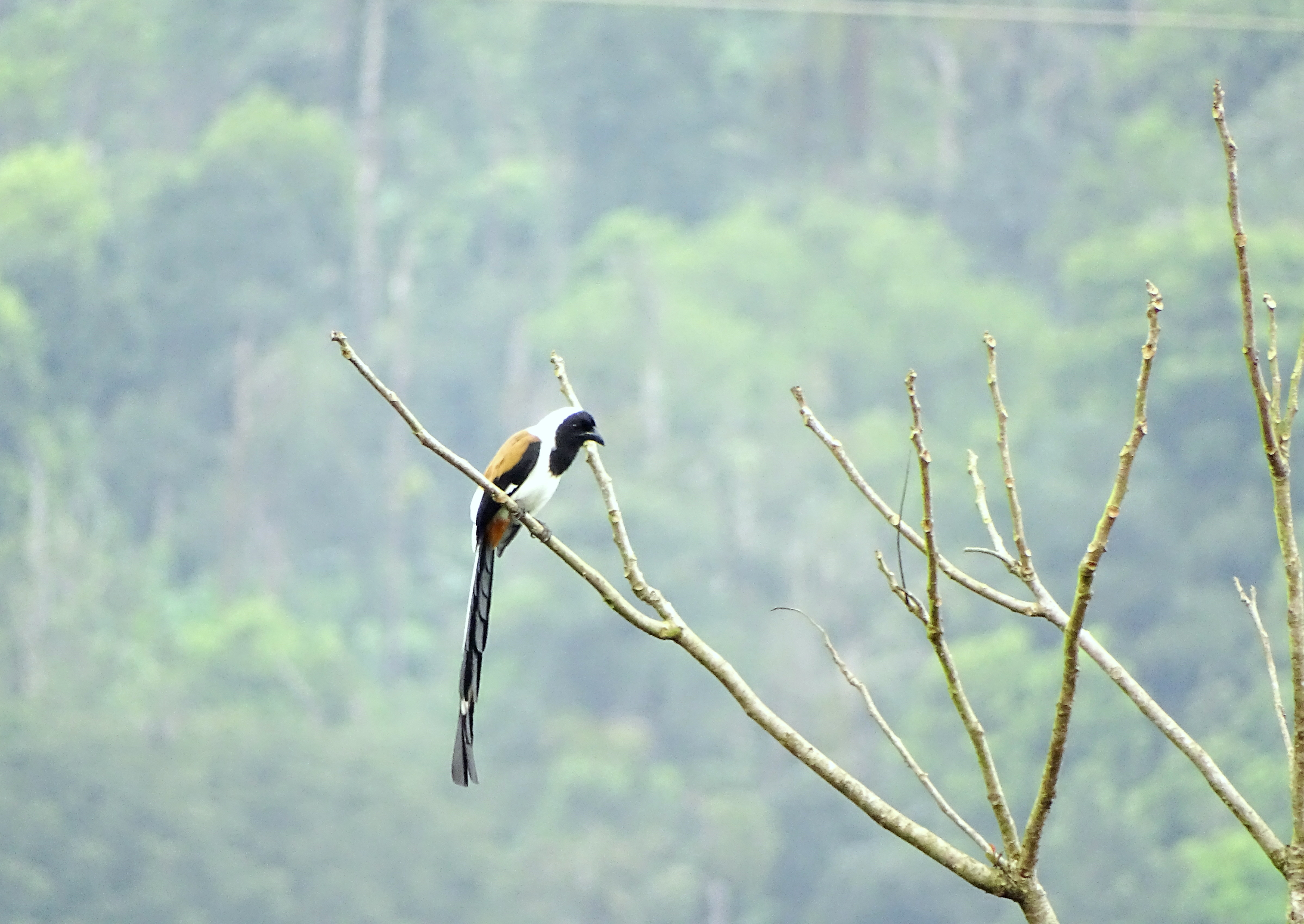 White-bellied Treepie seen in Mugilu Homestay, Bugadahalli, Sakleshpur, Karnataka